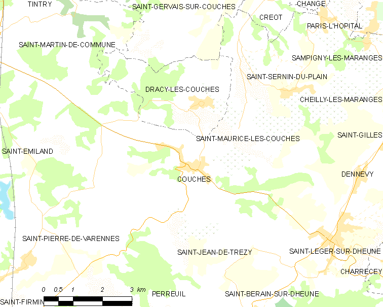 Map of French municipality